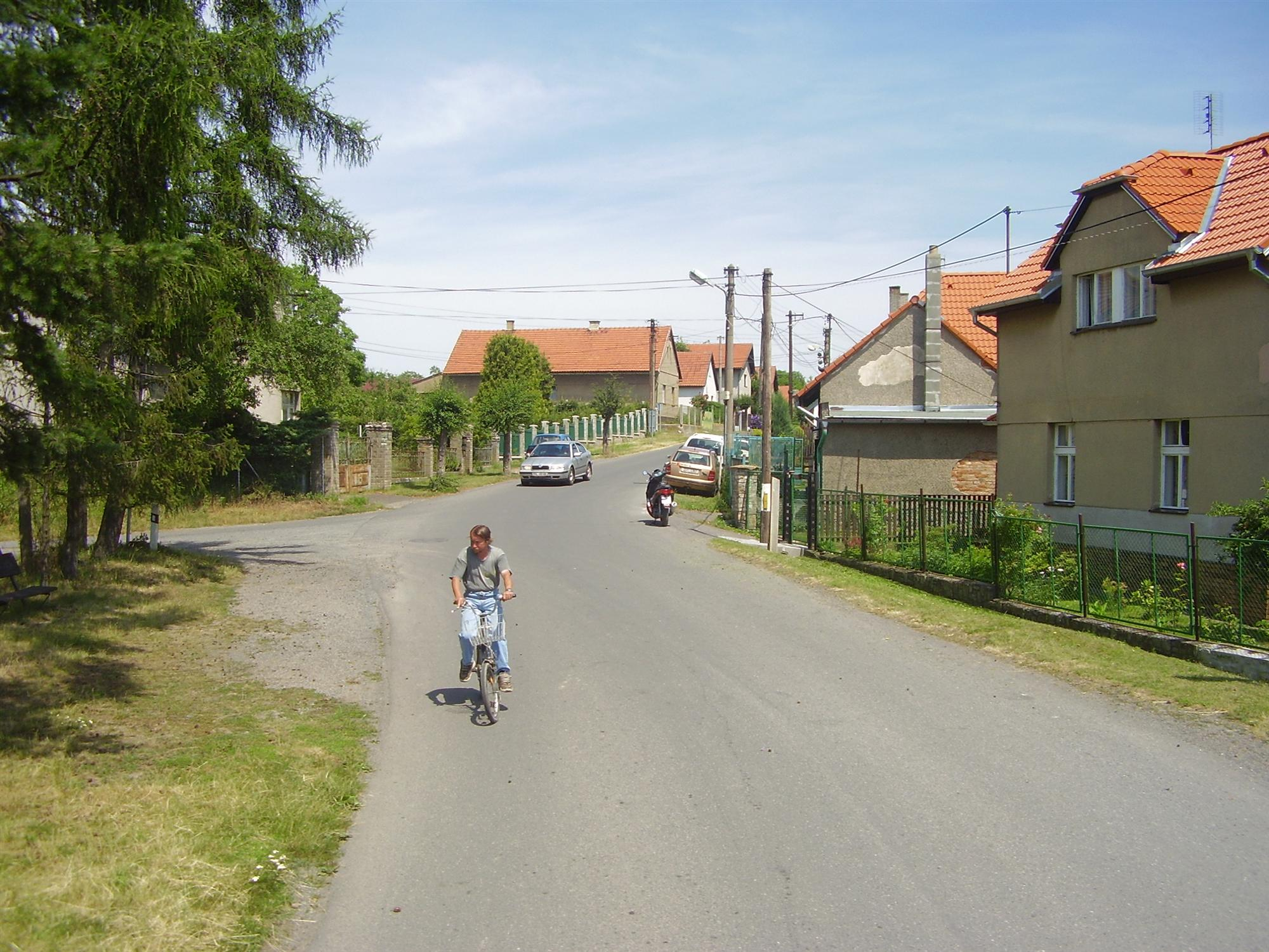 View from level crossing in Nova Ves pod Ples